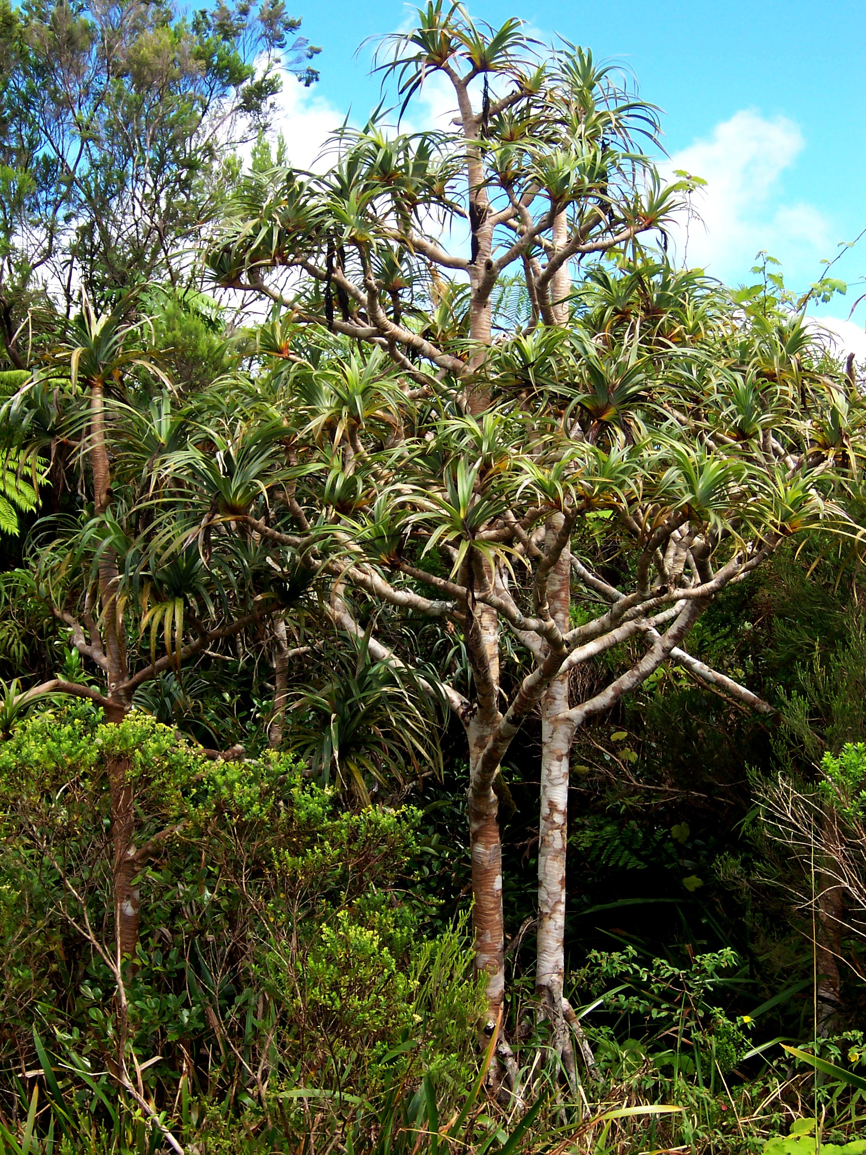 Pandanus montanus habit (Réunion island)